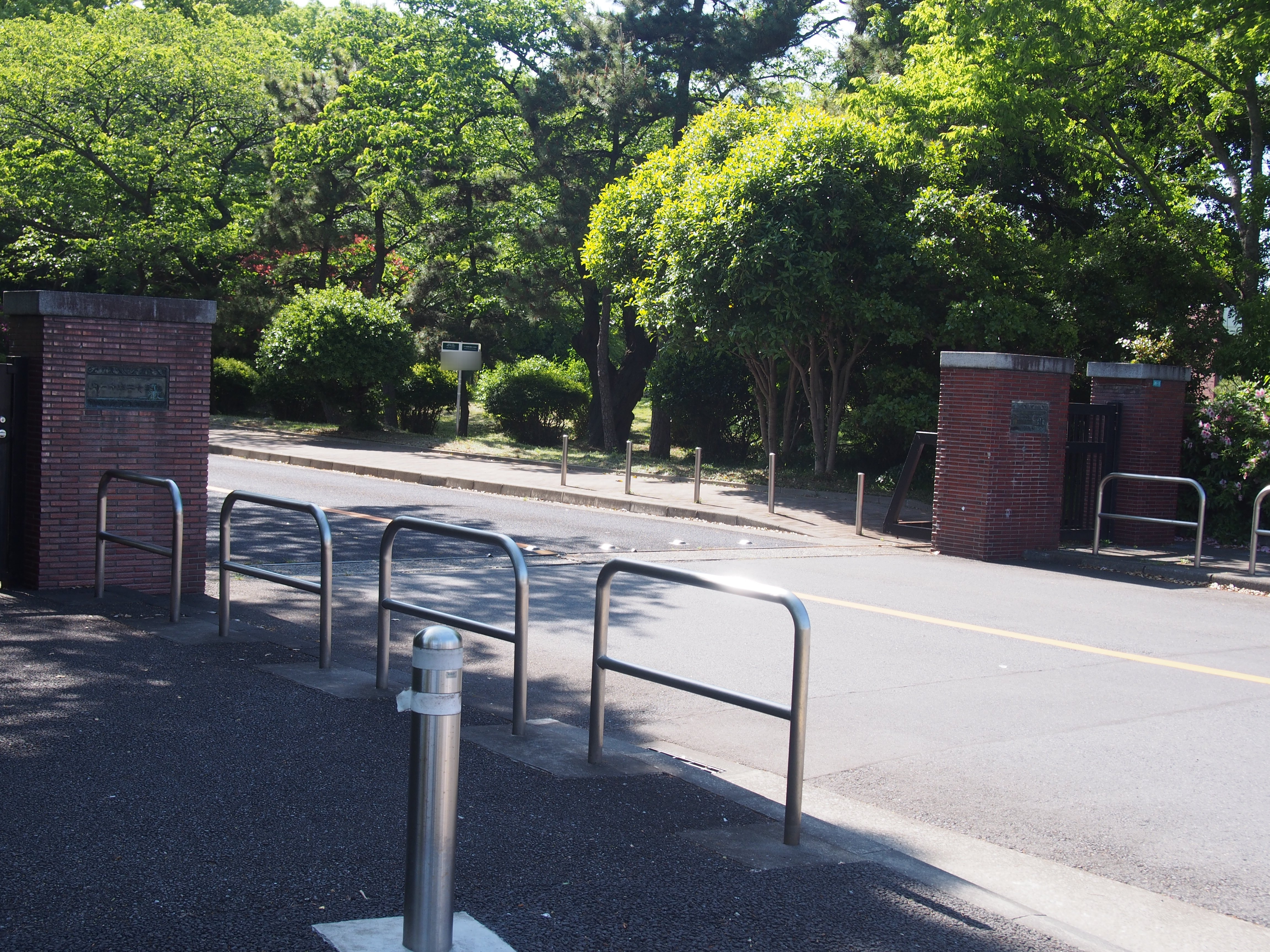 A photo of the entrance of Mizue Funeral Hall.Haruecho,Edogawa-ku,Tokyo,Japan.